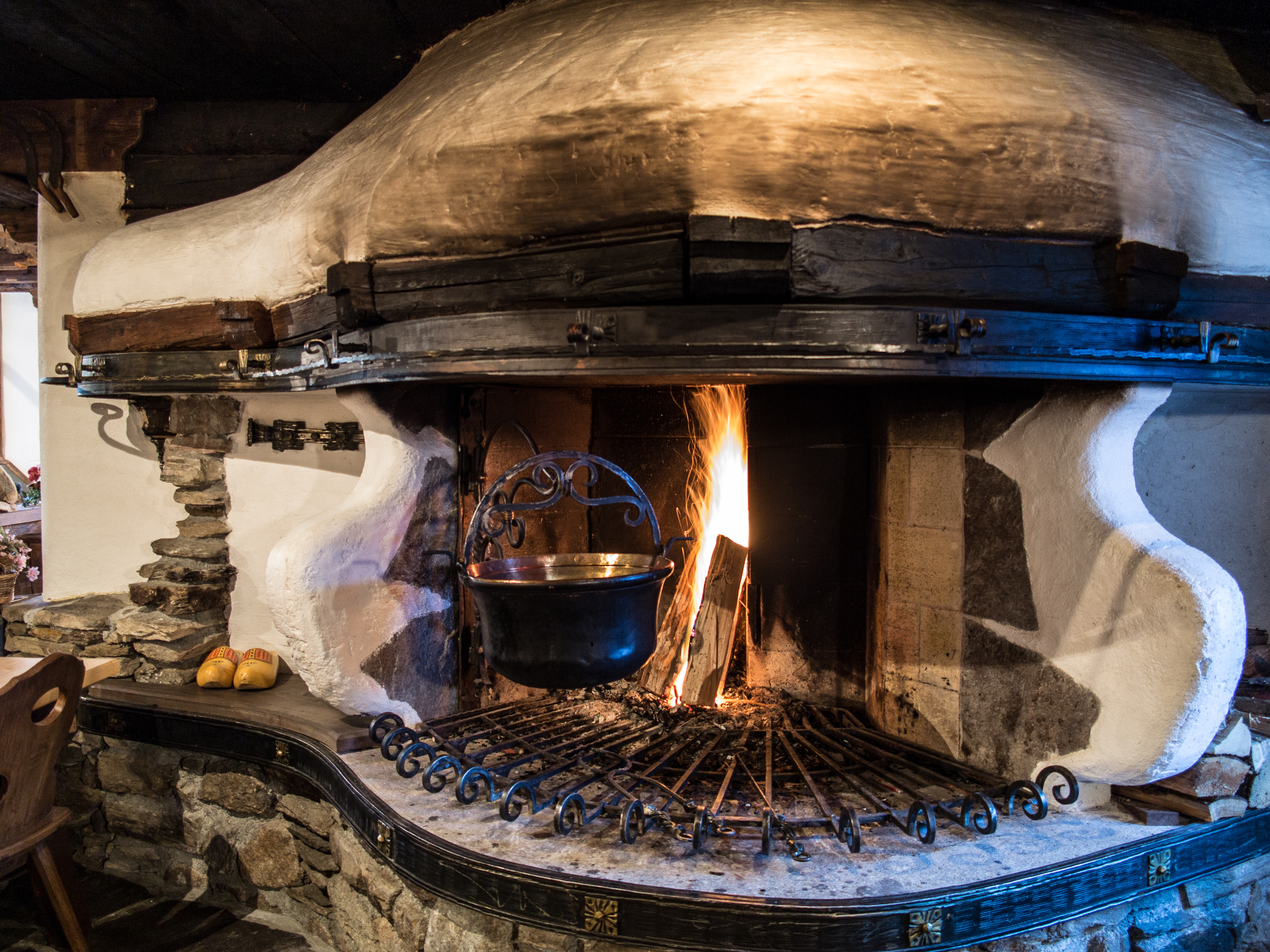 Fireplace in the style of an open hearth in the dining room in the seven hundred year old house of Himmelbauer, the Farm in the Sky in Oberwolliggen above Semslach near Obervellach in Carinthia / Austria / EU.